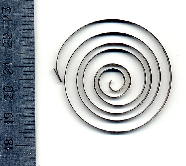 Clock mainspring